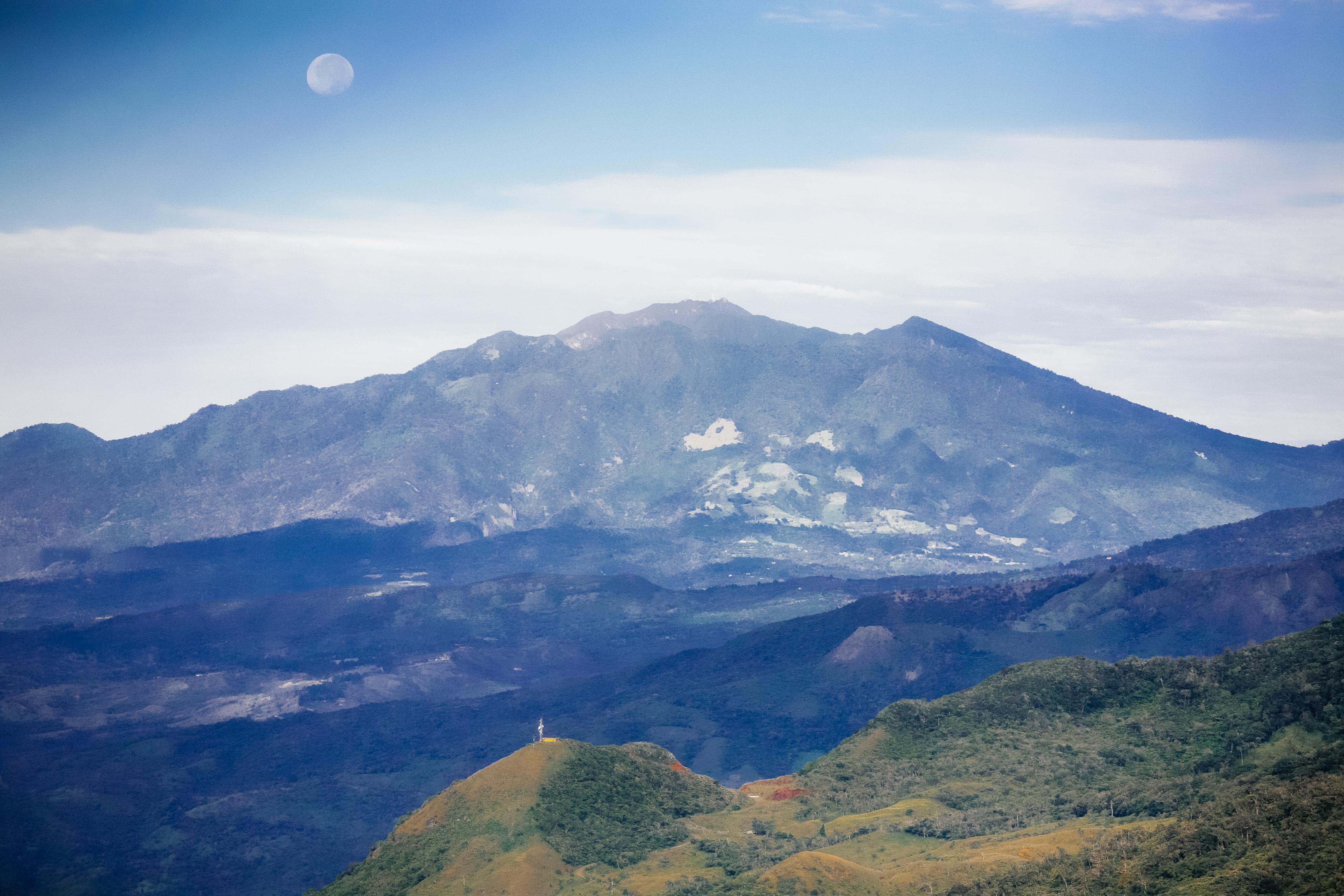 The Volcán Barú is the tallest mountain in Panama and is 3,474 metres high. It lies about 35 km off the border of Costa Rica.